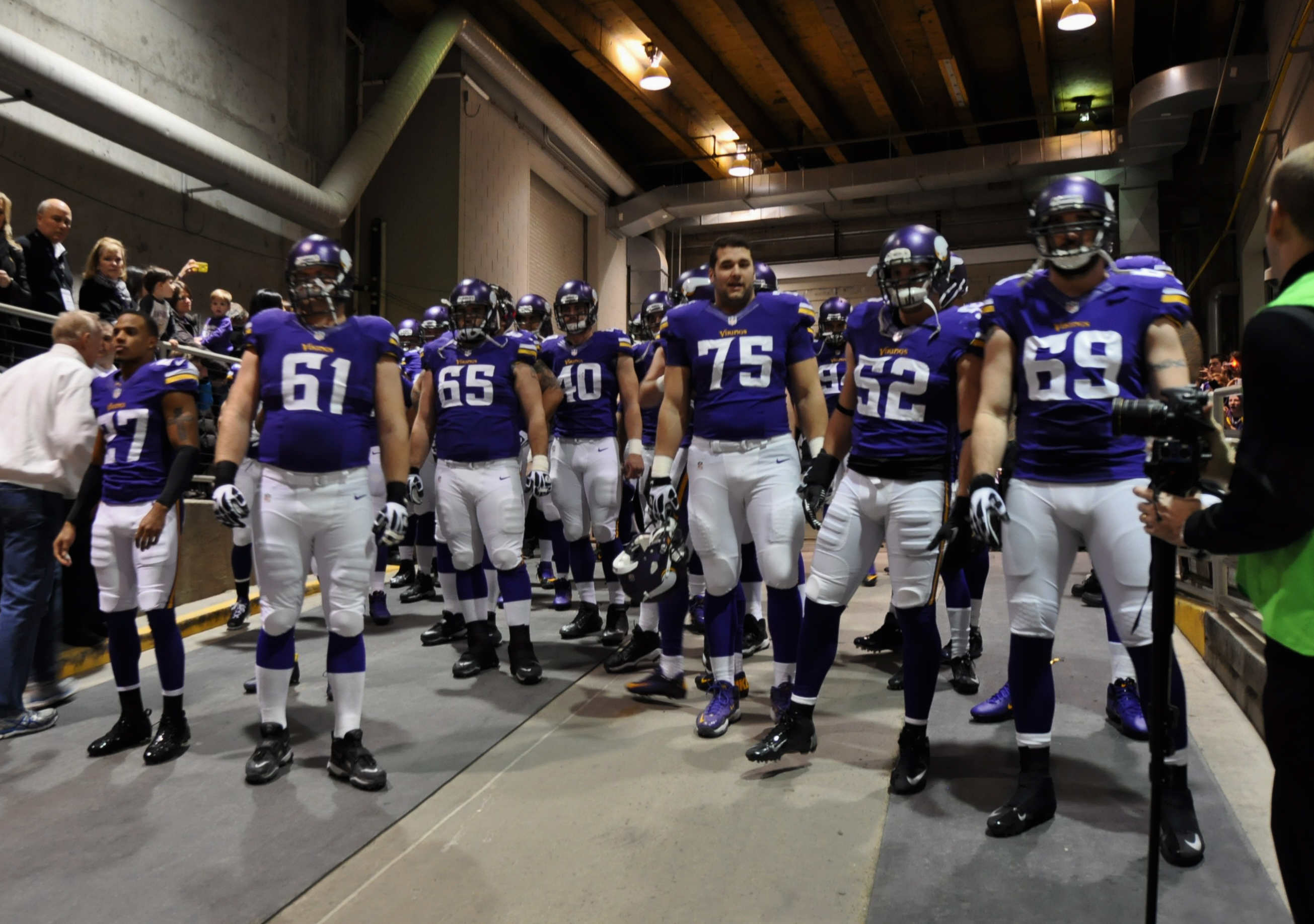 Minnesota Vikings in the Metrodome's tunnel during the last match of the stadium before his demolition